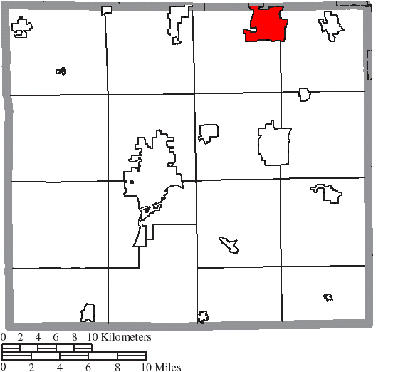 Map of the municipal and township boundaries of Wayne County, Ohio, United States, as of the 2000 census, with the location of the city of Rittman highlighted. Township borders are shown only in unincorporated areas in order to differentiate incorporated and unincorporated areas more clearly.